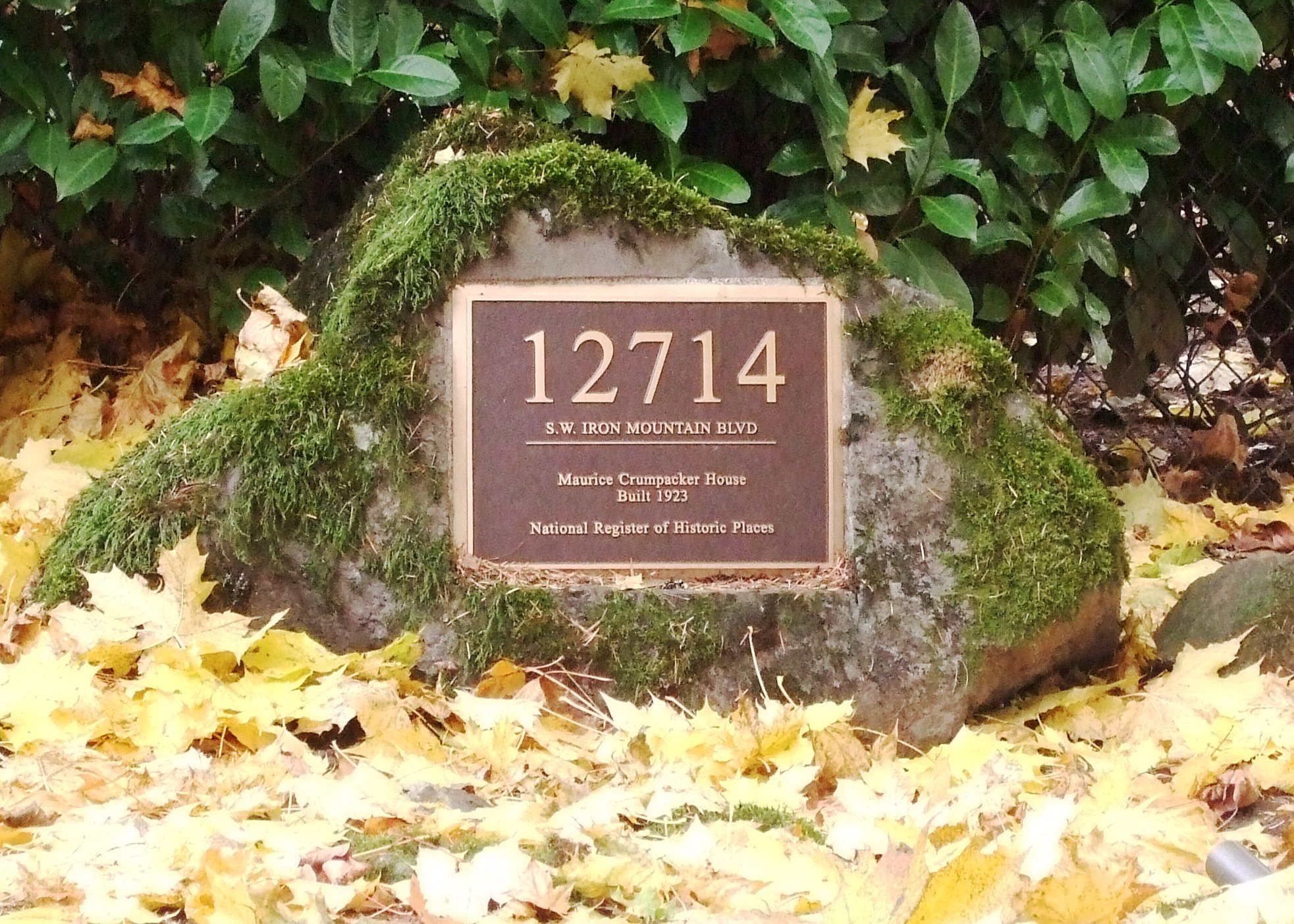 National Register of Historic Places plaque for Maurice Crumpacker House. The house is located in the unincorporated Dunthorpe neighborhood, south of the city of Portland and north of Lake Oswego, Oregon.